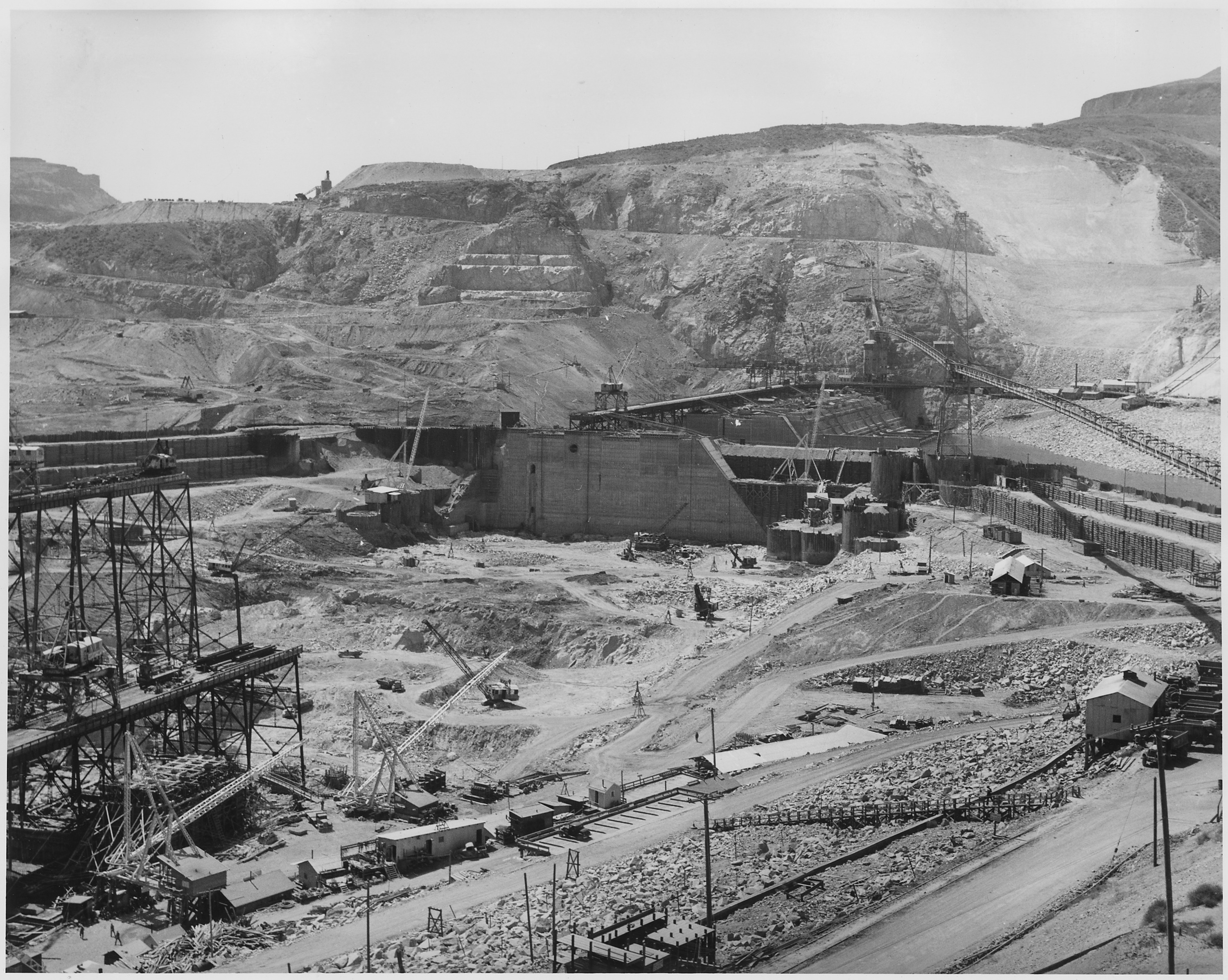 Scope and content: Photographic reports compiled by Harold Weaver illustrate forest management on Indian Reservation forests of Washington and Oregon, mainly on Colville where Weaver was Forest supervisor before becoming Regional Forester in 1960. Ther are a few photos of California and Montana and reports of scientific field trips.